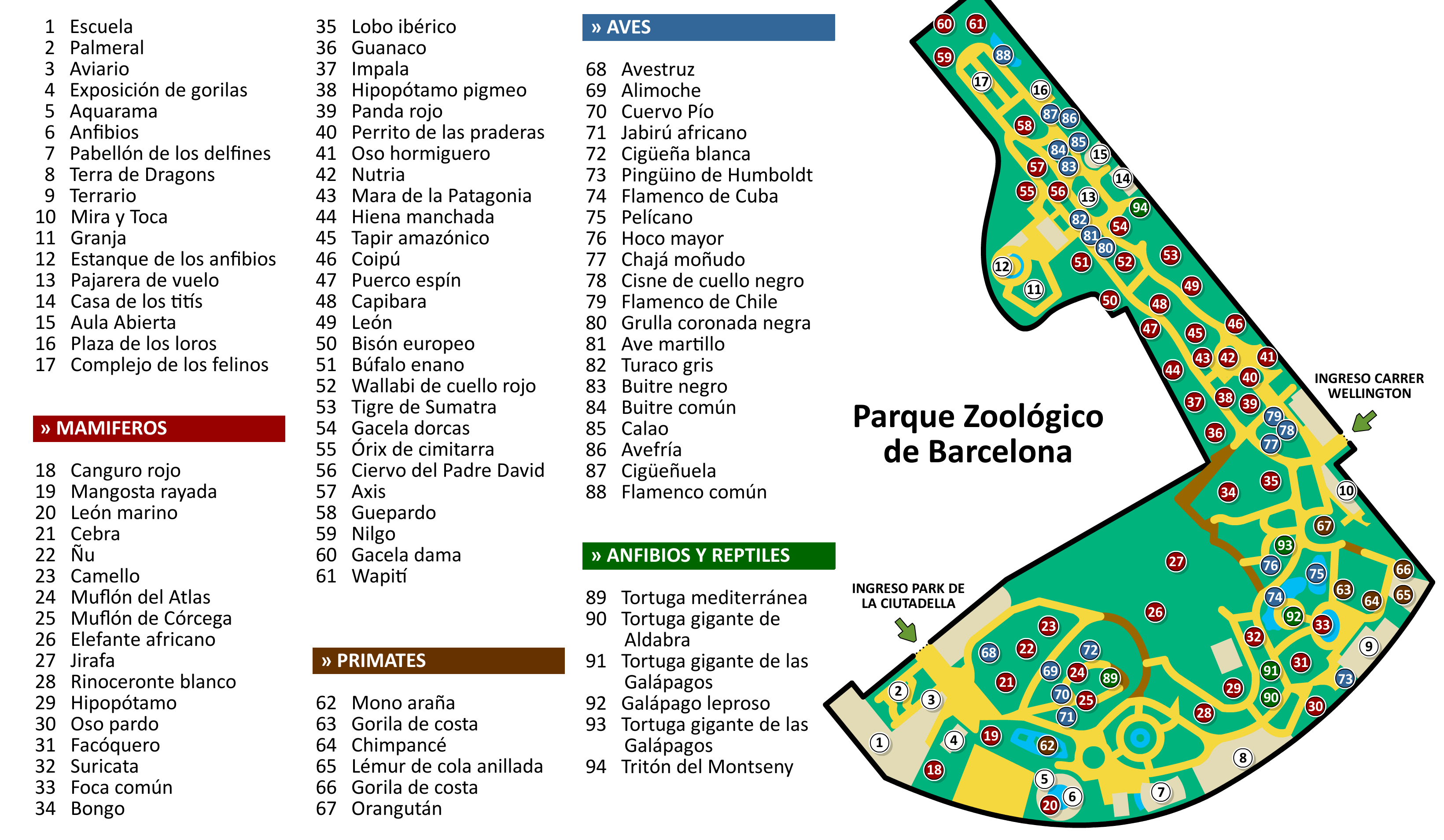 Map of the Barcelona Zoo, Catalonia, Spain (in spanish)